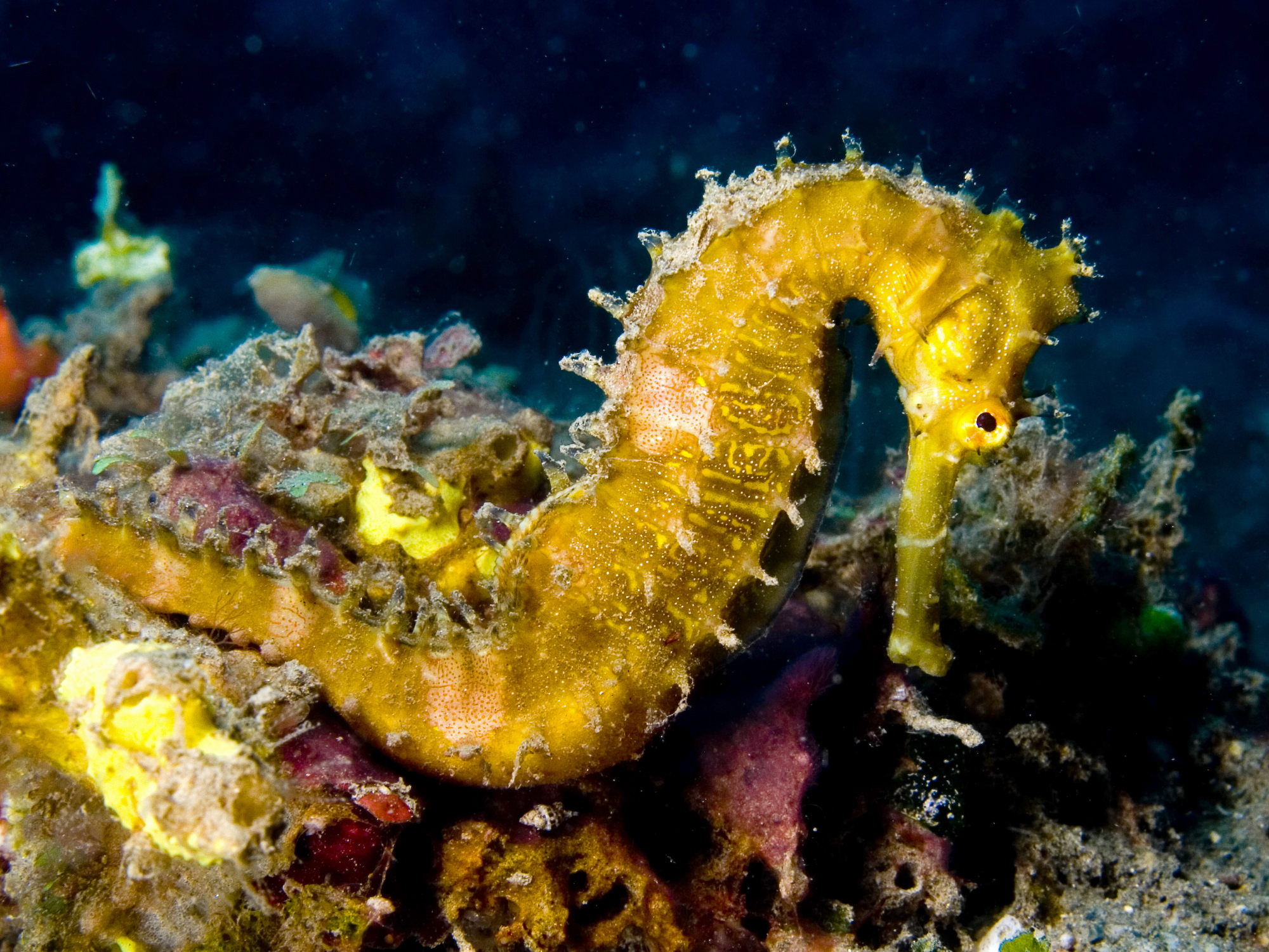 Spiny seahorse Hippocampus histrix